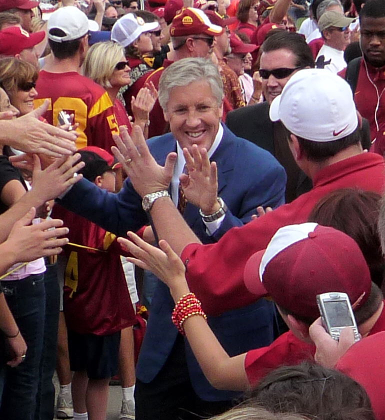 Head Coach Pete Carroll leads his University of Southern California Trojans football team through the pre-game "Trojan Walk" through numerous fans during the 2008 season.